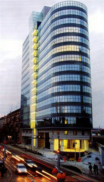 Business Centre T-Com Zagreb - Architect Marijan Turkulin